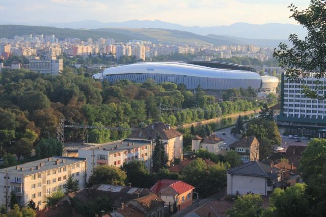 The western part of the city of Cluj-Napoca.